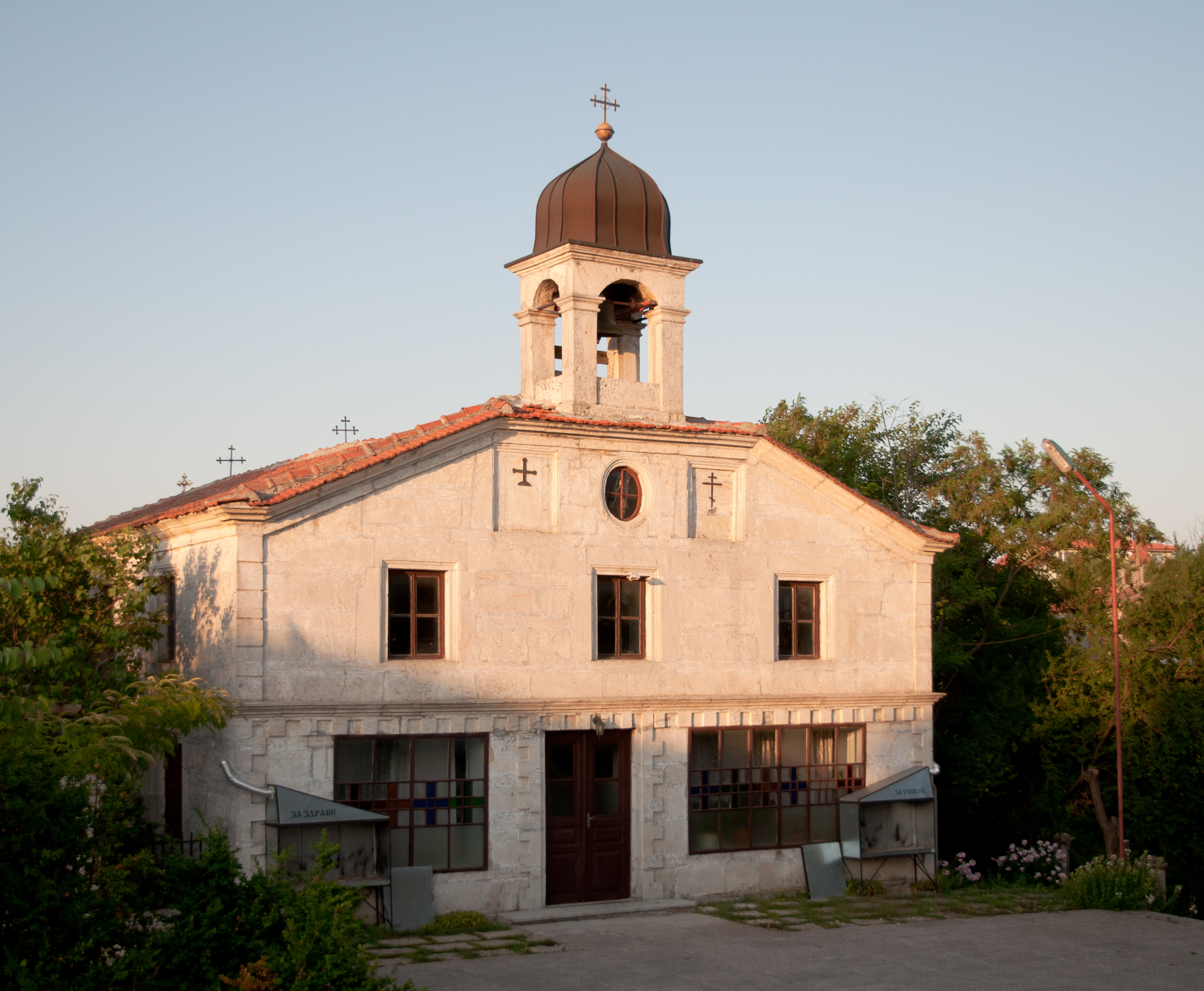 Dormition of the Theotokos Church in Kavarna, Bulgaria.